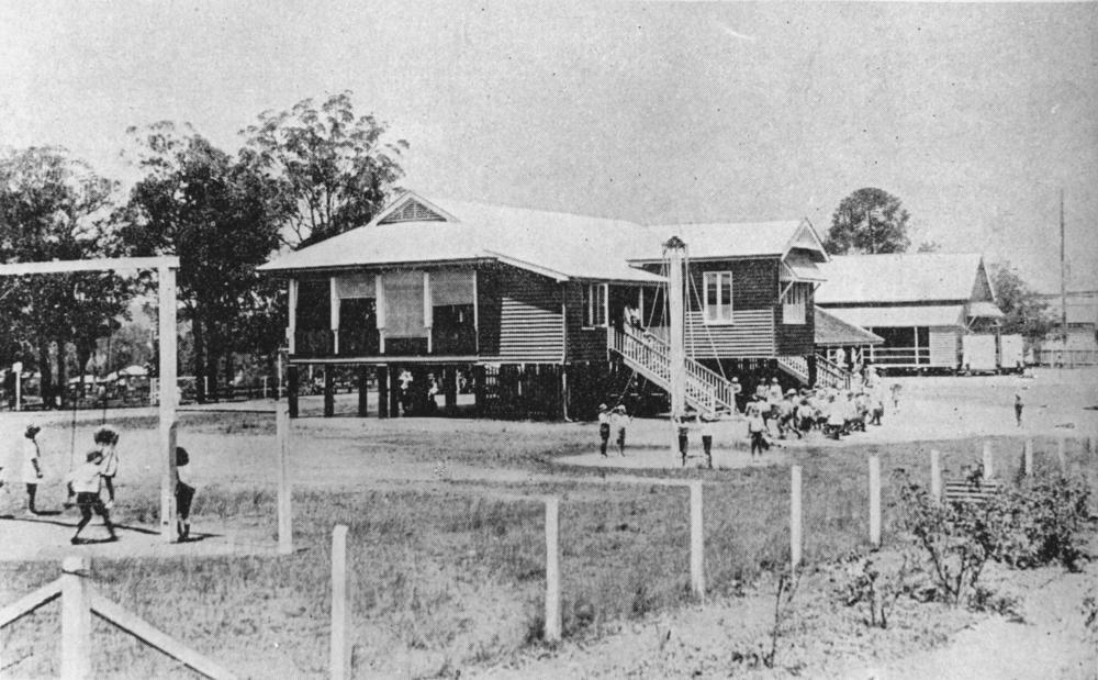 In the playground at Yeronga State School, 1923 Children play on swings or the maypole in the grounds of Yeronga State School in 1923. The wooden school building is raised on wooden stilts with a corrugated iron roof.